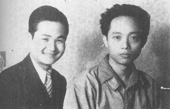 Song Fei Wuo and Jian Kuo Shian